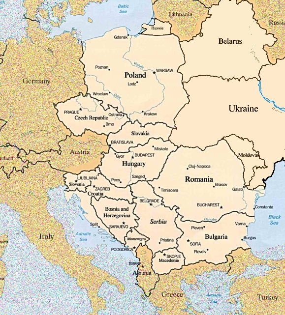 Map of Eastern European Countries